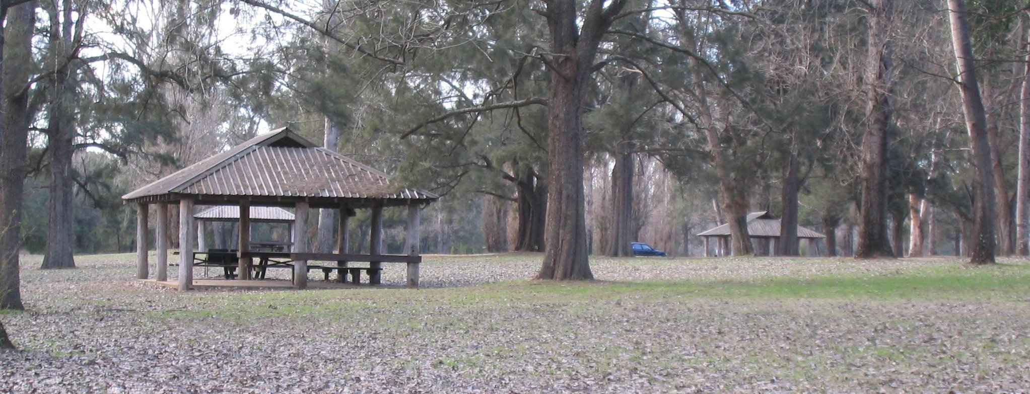 Cattai National Park picnic area. North west of Sydney, Australia.